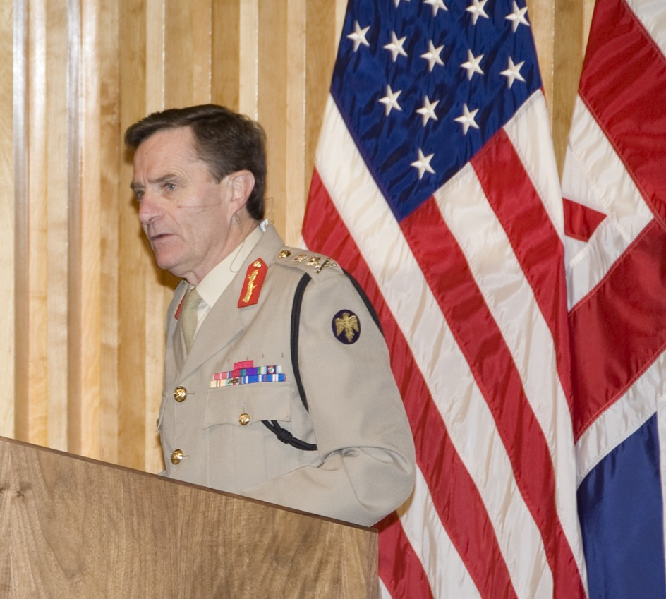 British General Sir John McColl, Deputy Supreme Allied Command Europe, speaks to Army War College.